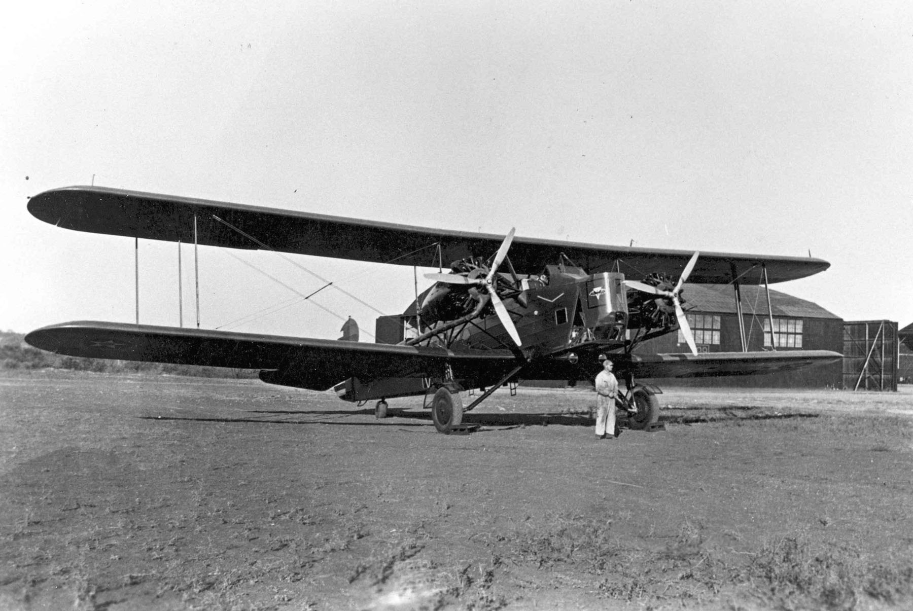 Keystone B-6A (or Y1B-6) bomber, front right three-quarter view. (Source misidentifies this aircraft as a B-5A, but its propellers have three blades instead of two. Only the B-4 and B-6, which both had more powerful engines, used three-blade propellers, and the engines have the front-mounted exhaust collector rings of Wright engines, which means this is a B-6.)